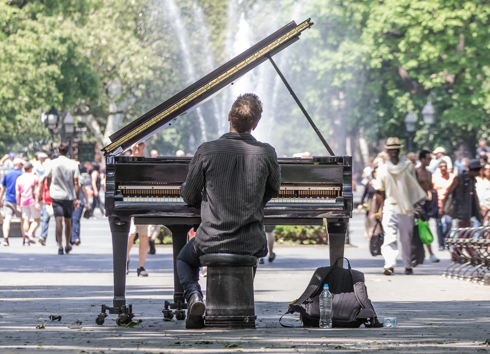 A man, likely Colin Huggins, playing a public piano in a park, likely Washington Square Park, in Manhattan, New York.